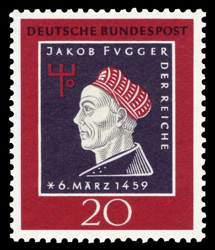 500th day of birth of Jakob Fugger (1459-1525) Graphics by Göhlert Ausgabepreis: 20 Pfennig First Day of Issue / Erstausgabetag: 6. März 1959 Michel-Katalog-Nr: 307